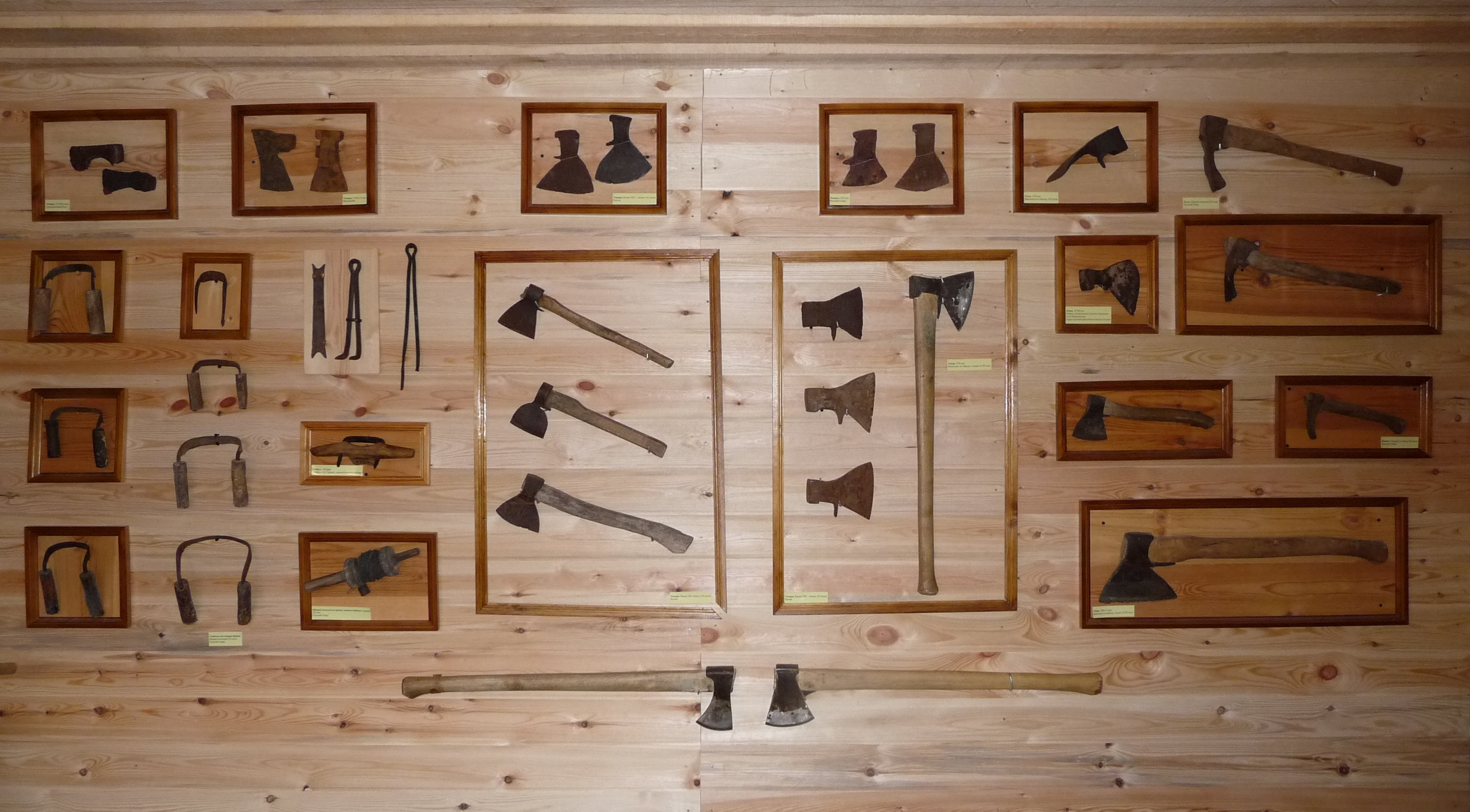 The Museum of carpentry and joinery tools, assembled architect-restorer Alexander Vladimirovich Popov and his colleagues, Kirillov, Vologodskaya oblast, Russia